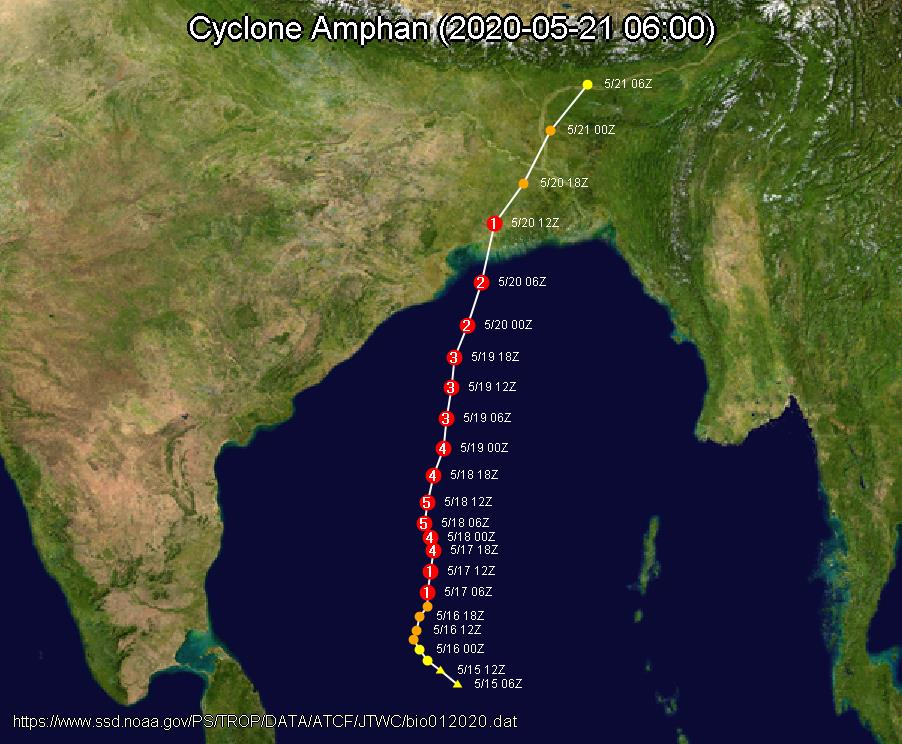 Cyclone Amphan (2020) map Saffir–Simpson scale ➎: Category 5; ➍: Category 4; ➌: Category 3; ➋: Category 2; ➊: Category 1; : Tropical storm; : Tropical depression Storm type : Tropical cyclone; : Subtropical cyclone; : Extratropical cyclone / Remnant low / Tropical disturbance / Monsoon depression